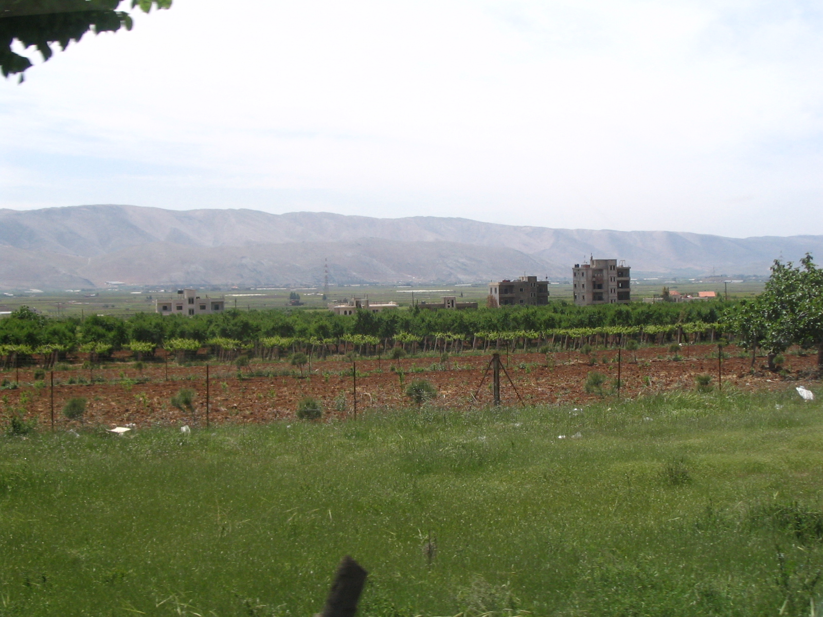 Vineyards near Zahle, in the central Beqaa Valley, Lebanon. Not home 23:47, 25 September 2007 (UTC)